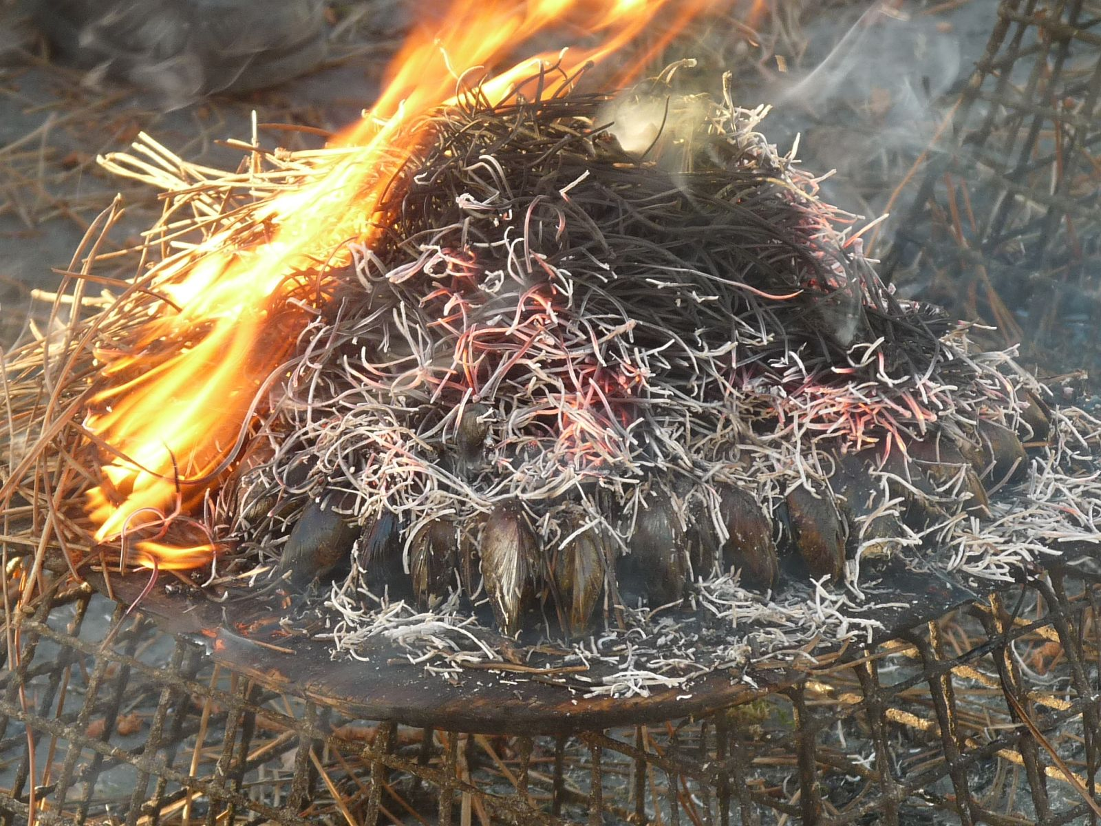 "éclade" of mussels in Charente-Maritime, SW France